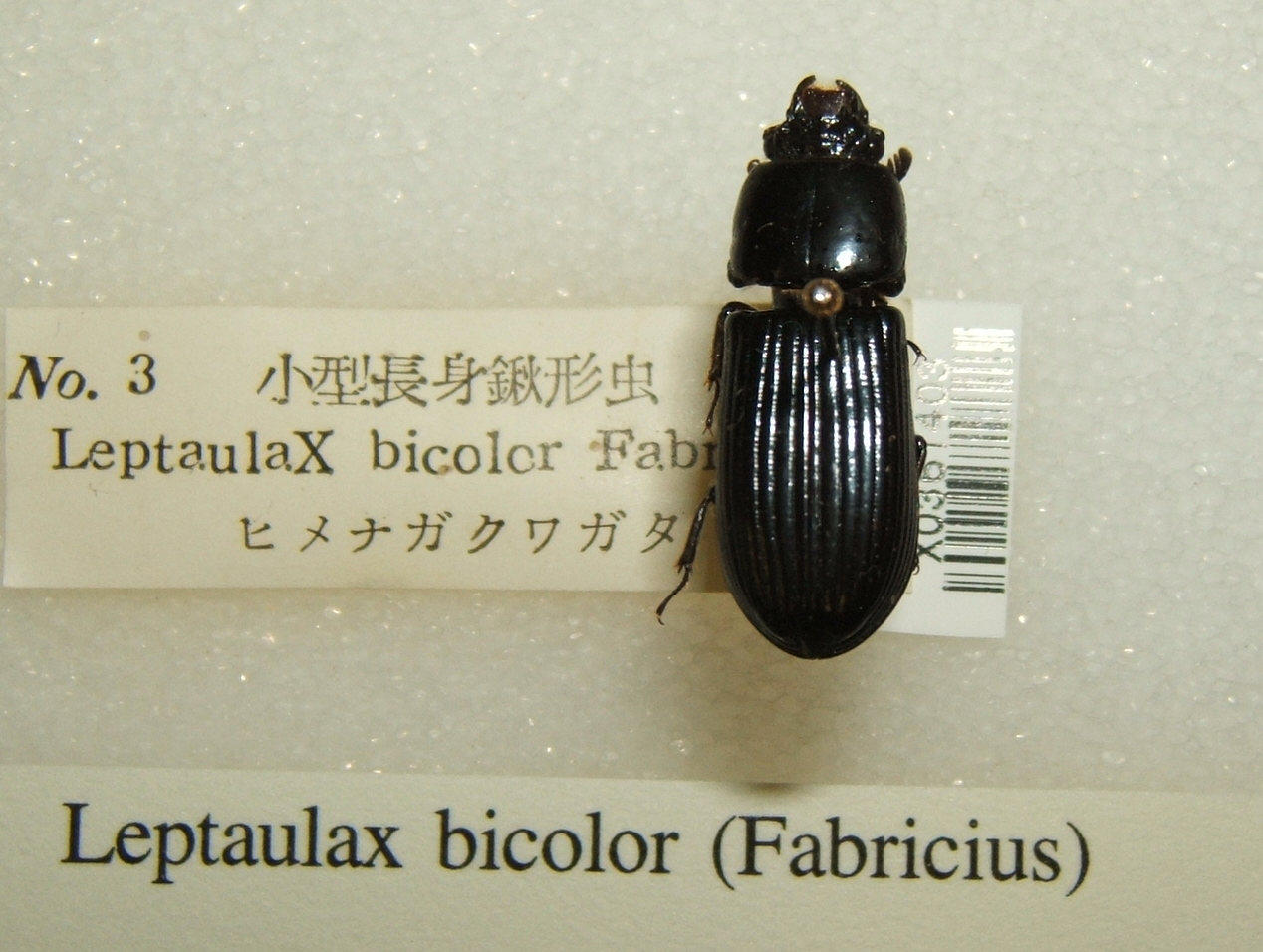 Leptaulax bicolor adult taken by Shawn Hanrahan at the Texas A&M University Insect Collection in College Station, Texas.